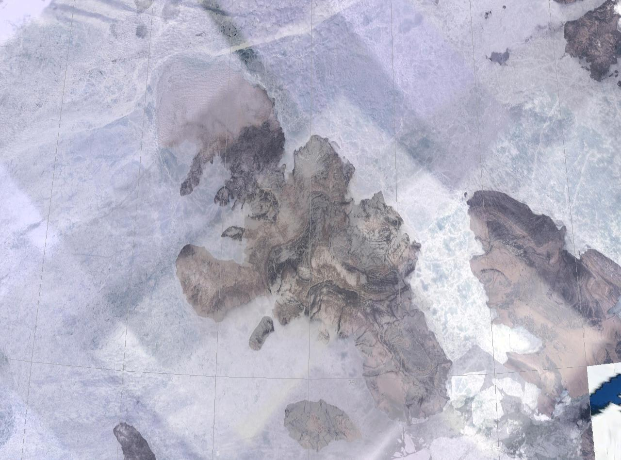 Satellite image of Ellef Ringnes Island